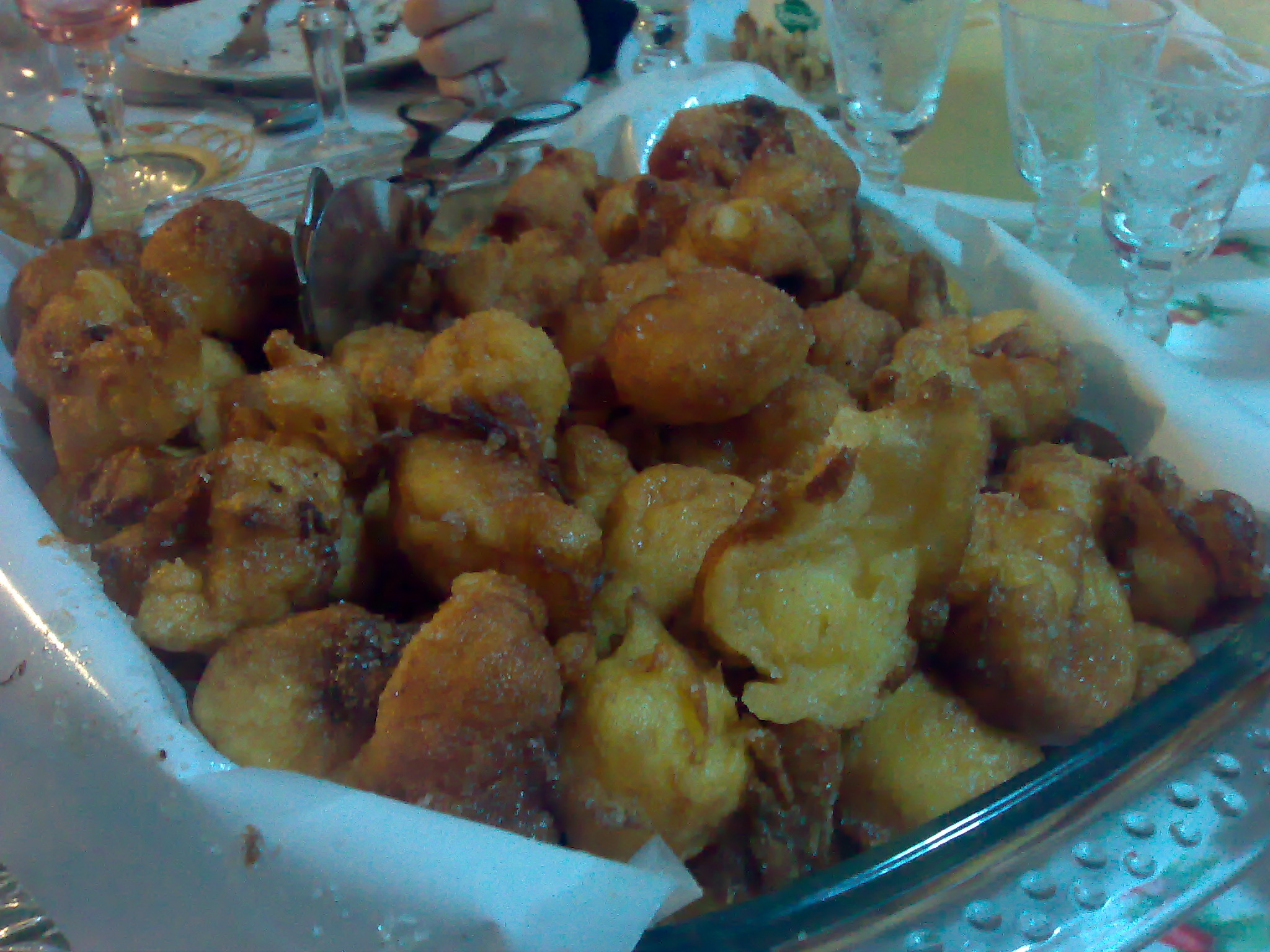 Sonhos de Natal, a typical Christmas dessert in Portugal.